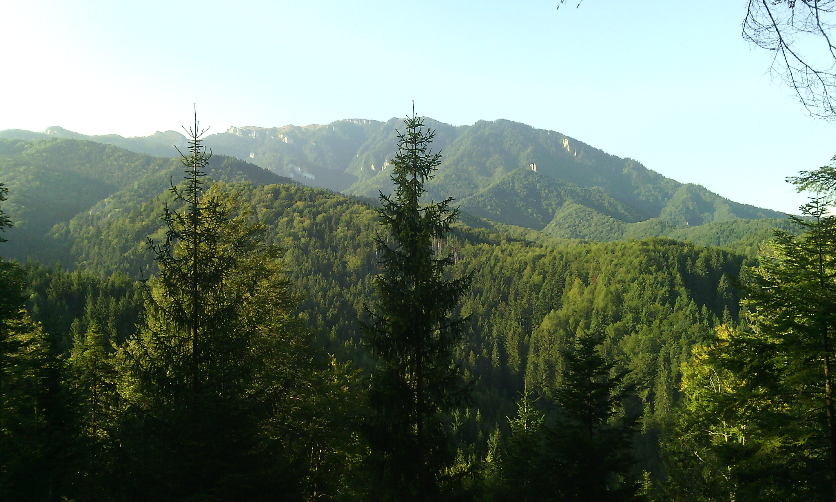 Piatra Mare Massif